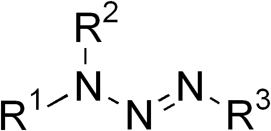 general chemical structure of a triazene